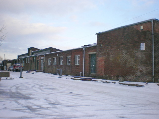 Former Hapton Valley Coal Mine Opened in 1853 the mine had various mishaps over the years eventually closing in 1982.